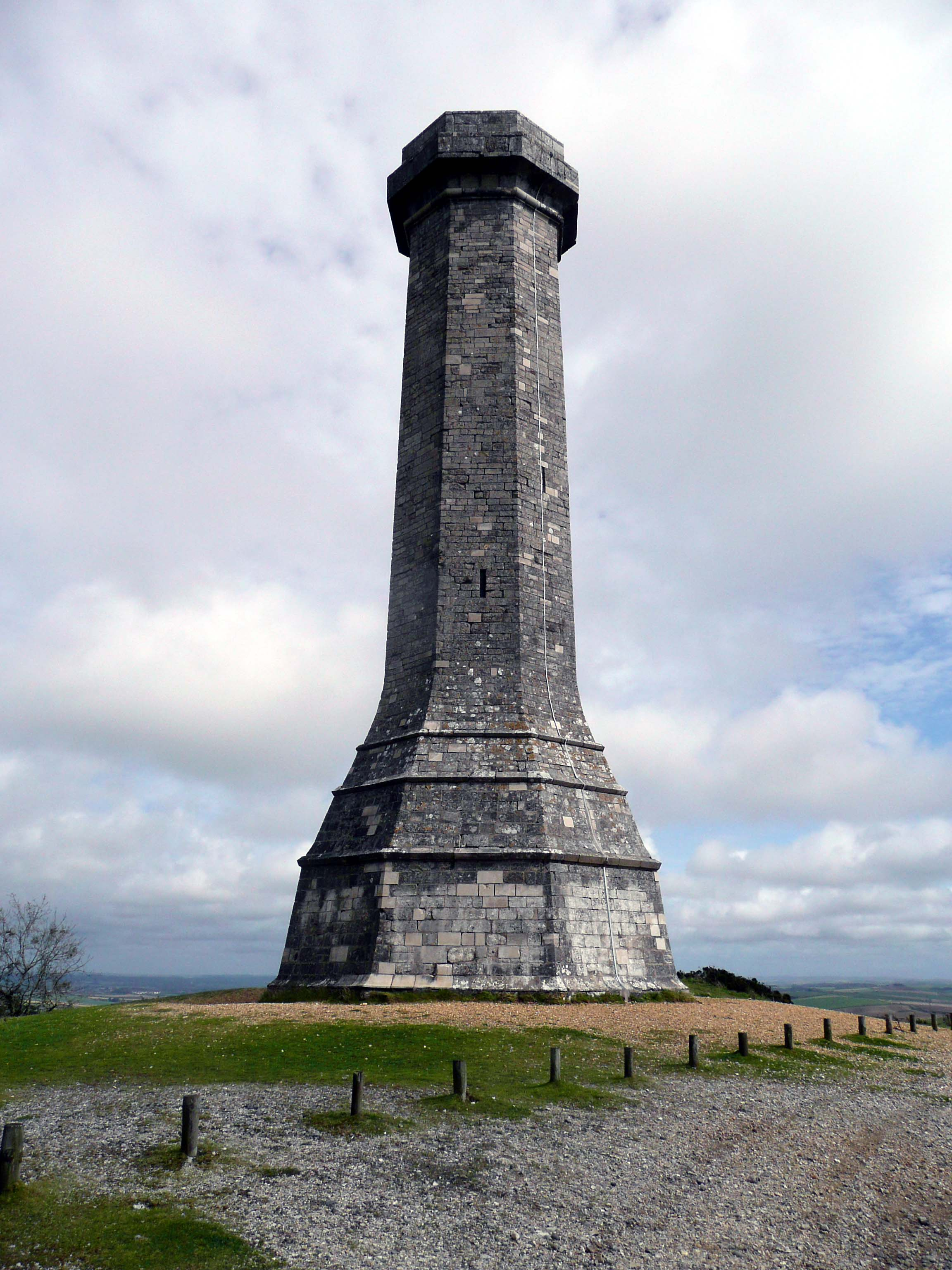 Hardy was the Captain of HMS Victory at the Battle of Trafalgar